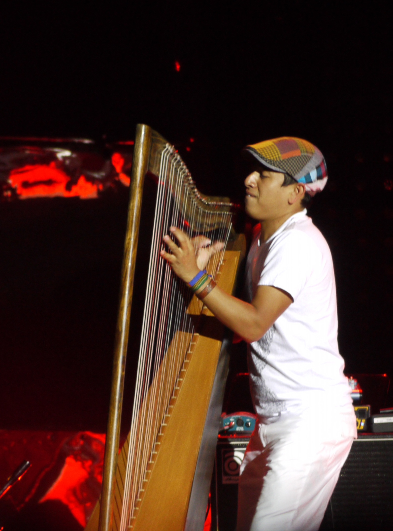 Edmar Castañeda playing harp solo at Marcus+ concert in 2011